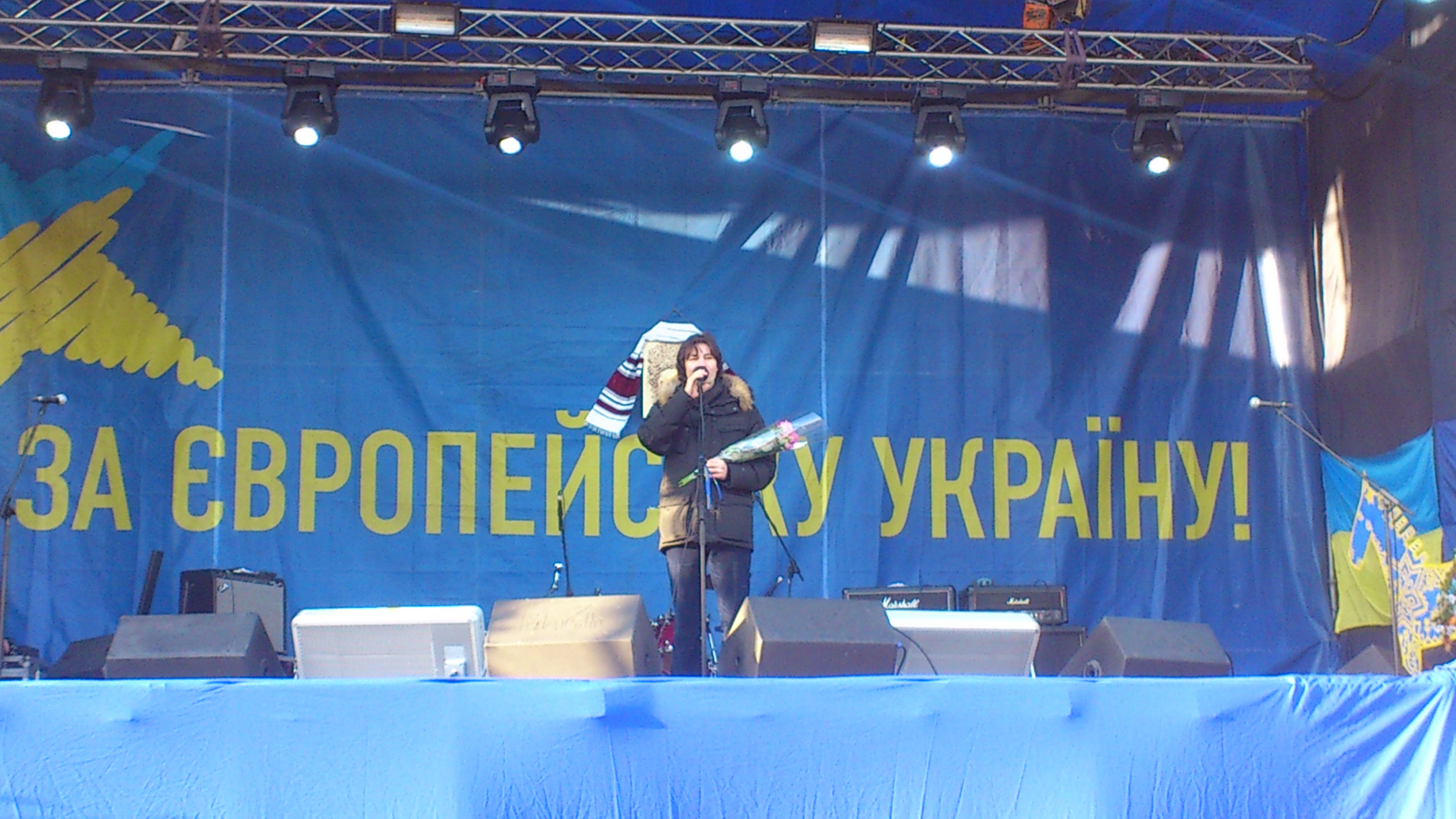 Yevhen Nyshchuk at Euromaidan